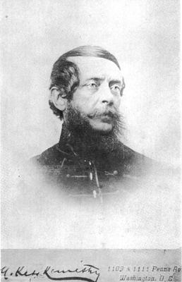 A daguerreotype of Lajos Kossuth originally from 1851